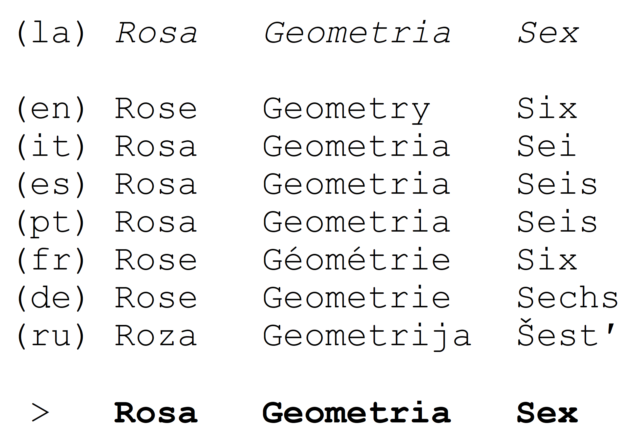 Formation of words rosa, geometria and sex in latino sine flexione in accordance with the seven reference languages defined by Giuseppe Peano.